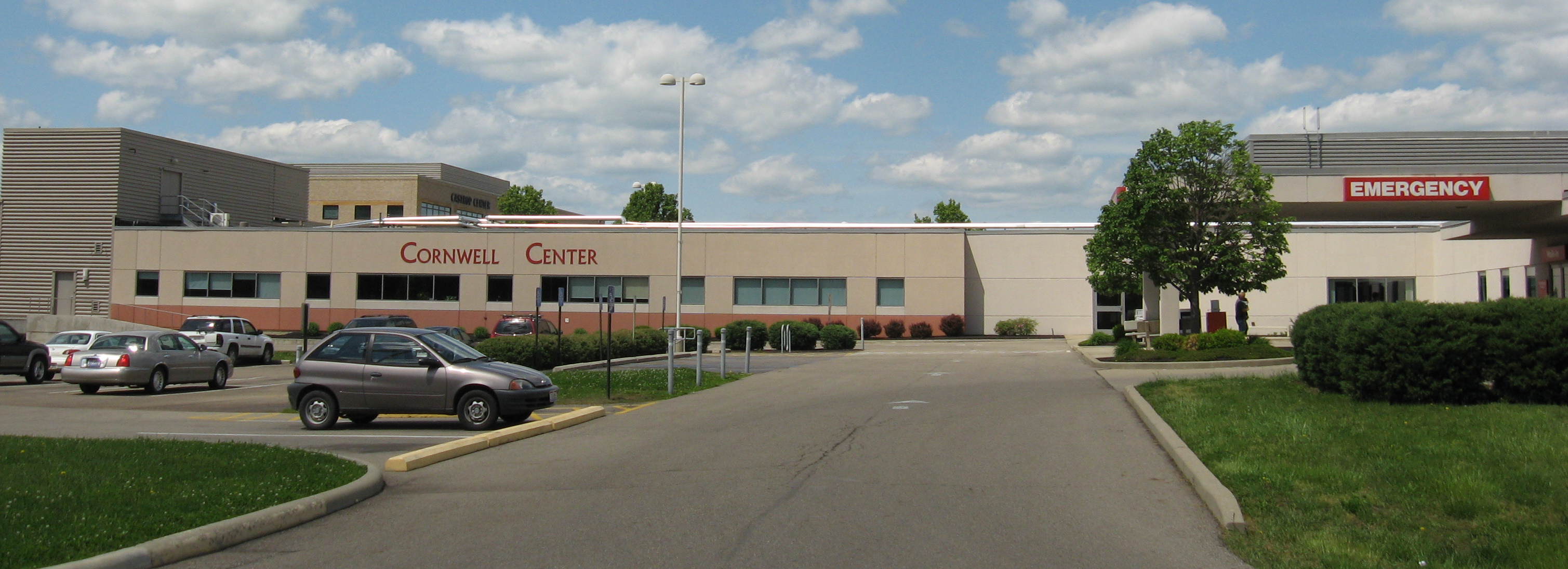 Cornwell Center, the Emergency Room section of O'Bleness Memorial Hospital (Athens, USA)